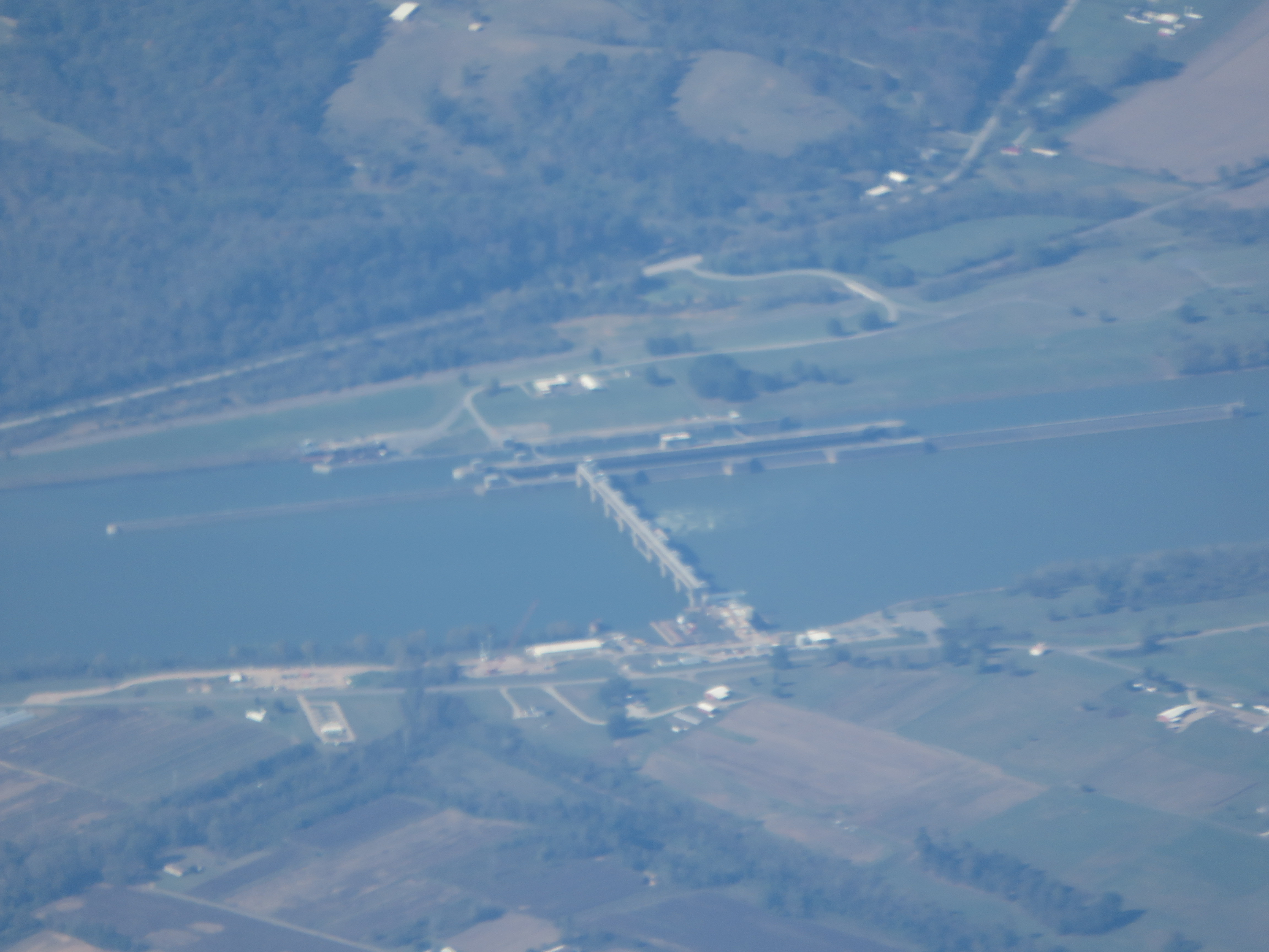 Aerial view of the Racine Lock and Dam across the Ohio River in 2017